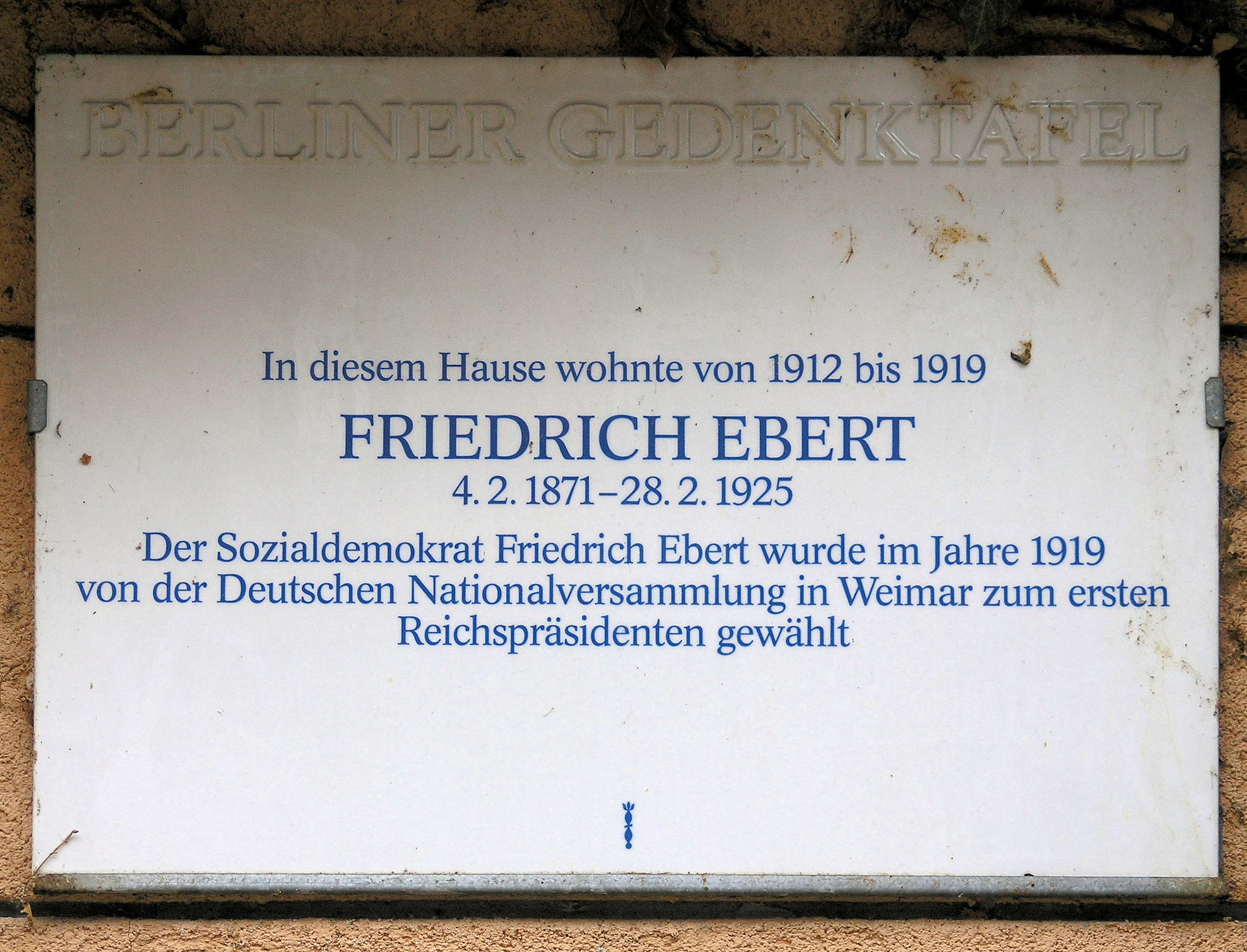 Berlin memorial plaque, Friedrich Ebert, Defreggerstraße 20, Berlin-Plänterwald, Germany